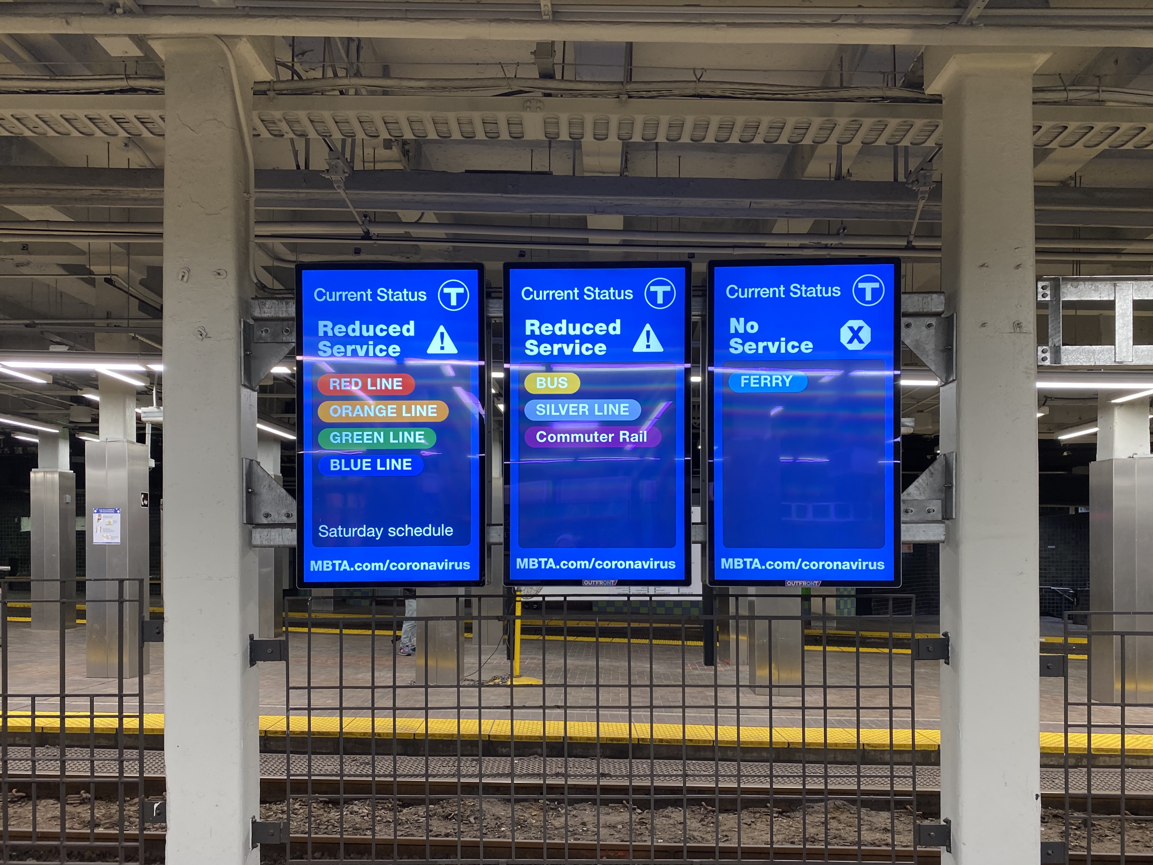 Digital signs in Park Street station showing reduced service due to the coronavirus pandemic